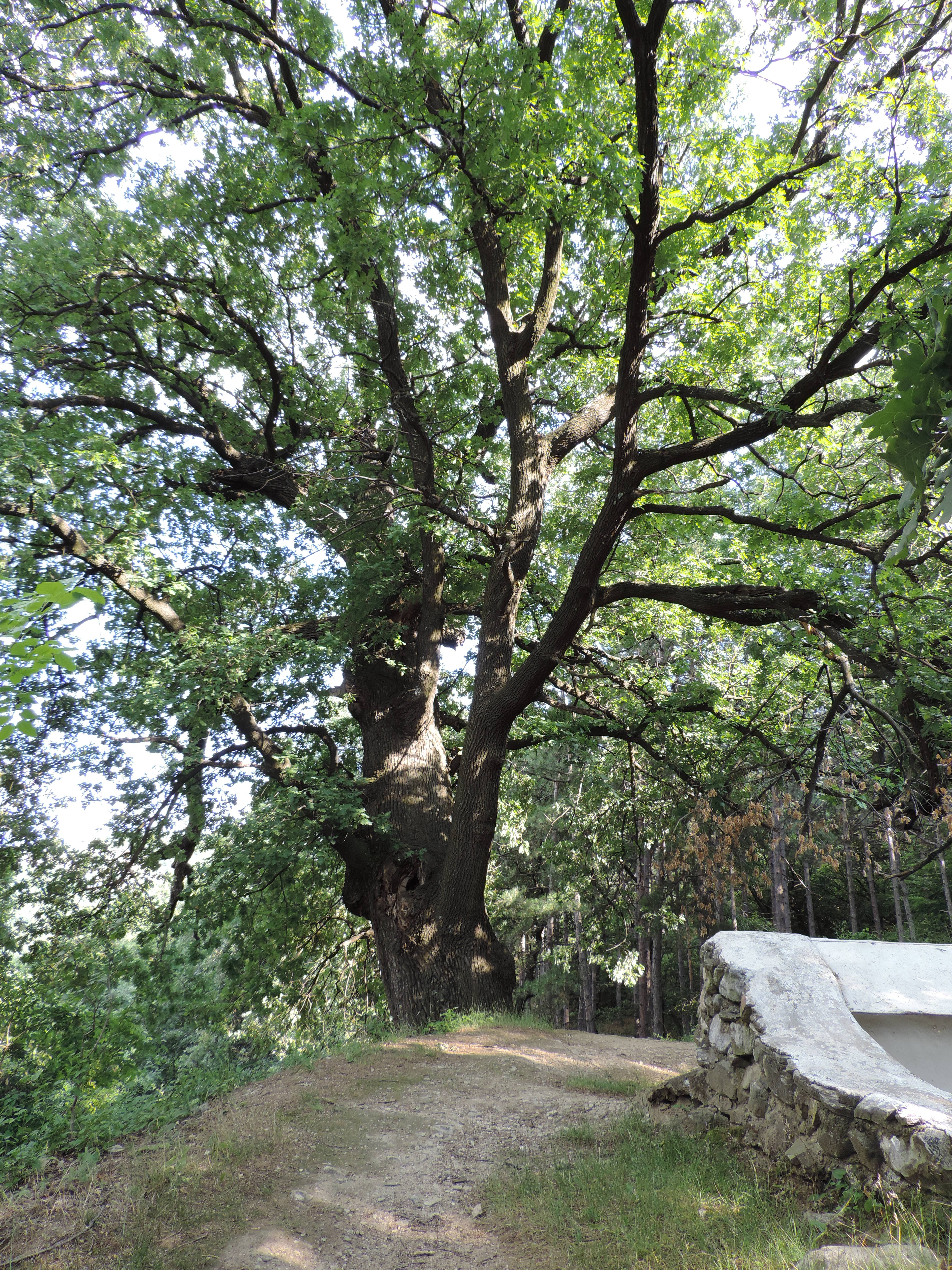 Saint Marina protected area, Bulgaria